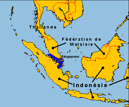 Strait of Malacca area